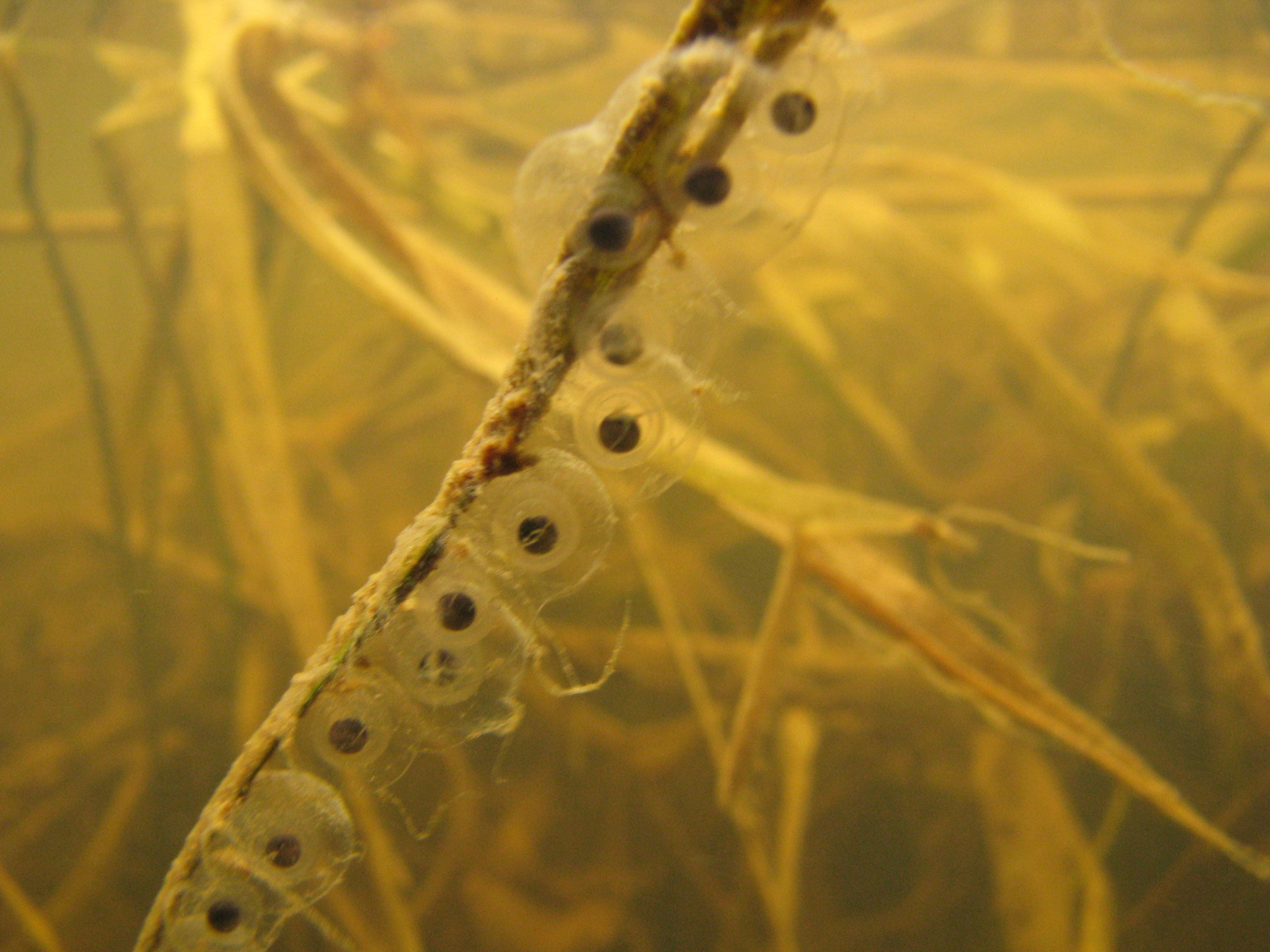 Long-toed salamander (Ambystoma macrodactylum) developing egg mass. Photographed near Prince George, BC.